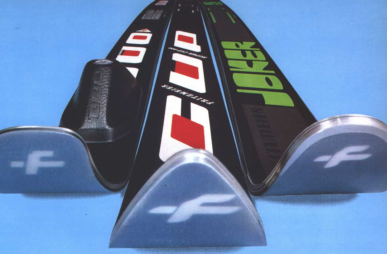 Fritzmeier Group